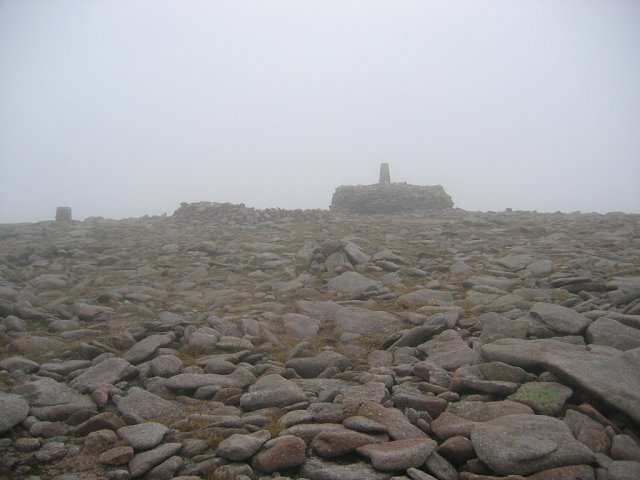 Summit of Ben MacDui. Scotland's runner up in height. The summit cairn and trig pillar in usual mist at 1309m. Often inaccessible due to evil weather, it was relatively benign on this day. A popular tourist hill, the summit smells almost as bad as the top of Ben Nevis. It could be worse, one of the landowners planned to build a 30m+ high pyramid up here as a mausoleum, and to out top that 1344m upstart in Lochaber. Last time I was here I could see from Caithness to the Cheviot, not so today. This is the hill version of Loch Ness, reputed haunted by a variety of apparitions the favourite being a 5m spectre who takes one step for every 3 you take.